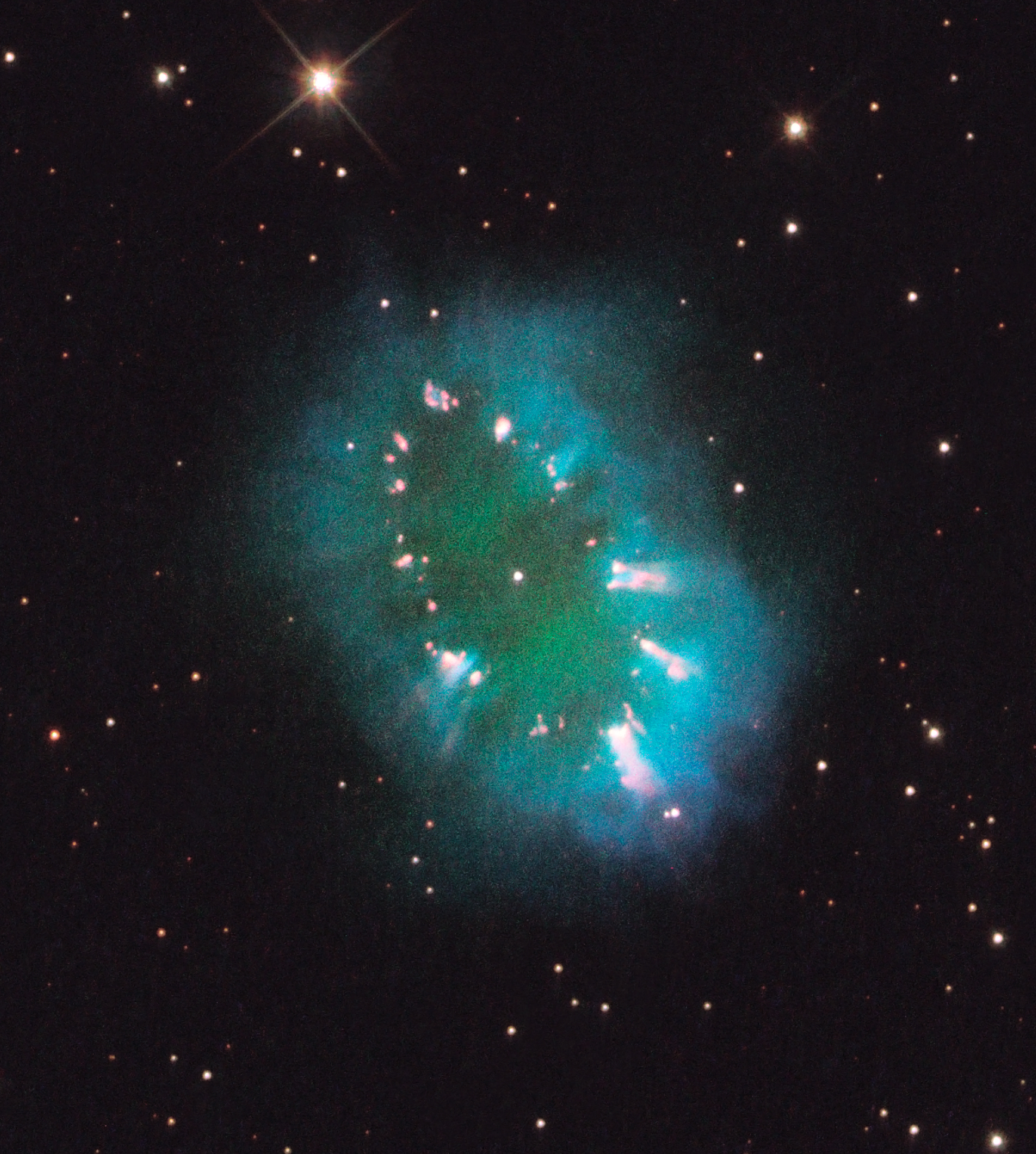 Image released 11 Aug 2011. The "Necklace Nebula" is located 15,000 light-years away in the constellation Sagitta (the Arrow). In this composite image, taken on July 2, 2011, Hubble's Wide Field Camera 3 captured the glow of hydrogen (blue), oxygen (green), and nitrogen (red). The object, aptly named the Necklace Nebula, is a recently discovered planetary nebula, the glowing remains of an ordinary, Sun-like star. The nebula consists of a bright ring, measuring 12 trillion miles wide, dotted with dense, bright knots of gas that resemble diamonds in a necklace. [1] Credit: NASA, ESA, and the Hubble Heritage Team (STScI/AURA) NASA Goddard Space Flight Center enables NASA’s mission through four scientific endeavors: Earth Science, Heliophysics, Solar System Exploration, and Astrophysics. Goddard plays a leading role in NASA’s accomplishments by contributing compelling scientific knowledge to advance the Agency’s mission.